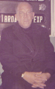 I´m the author of this photo: This photo was in the Subway of New York City, in a visit to the United States in 1969. Year: 1969 Place: New York City Dilia Díaz Cisneros